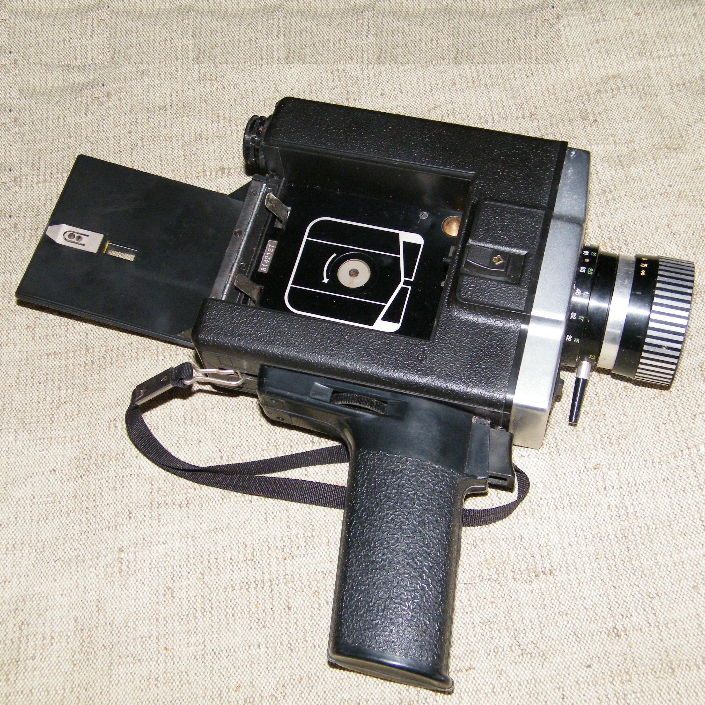 Аврора-215 кинокамера